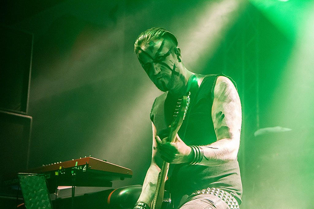 God Seed - 7.12.2012 - Music Hall, Geiselwind